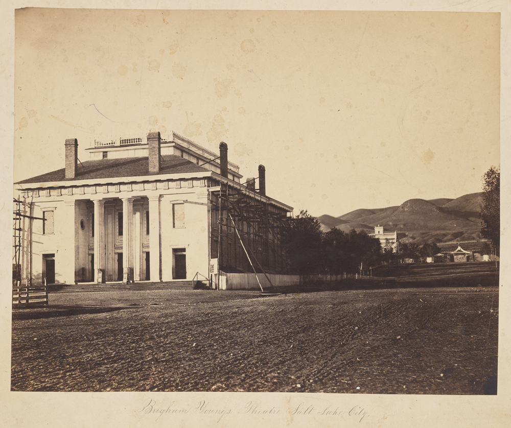 Title: Brigham Young's Theatre, Salt Lake City. Creator: Russell, Andrew J., 1829-1902 Date: 1868-1870 Part Of: Place: Salt Lake City, Salt Lake County, Utah Physical Description: 1 photographic print: albumen; 23.3 x 29.4 cm on 34.1 x 43.1 cm File: vault_ag1982_0134x_7_theatre_opt.jpg Rights: Please cite DeGolyer Library, Southern Methodist University when using this file. A high-resolution version of this file may be obtained for a fee. For details see the web page. For other information, . For more information and to view in high resolution, View the